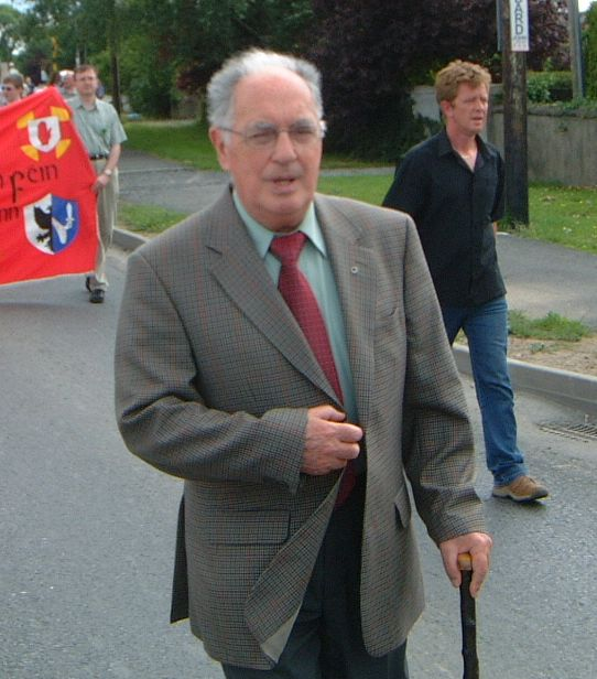 Photo taken by me at Bodenstown 2004.